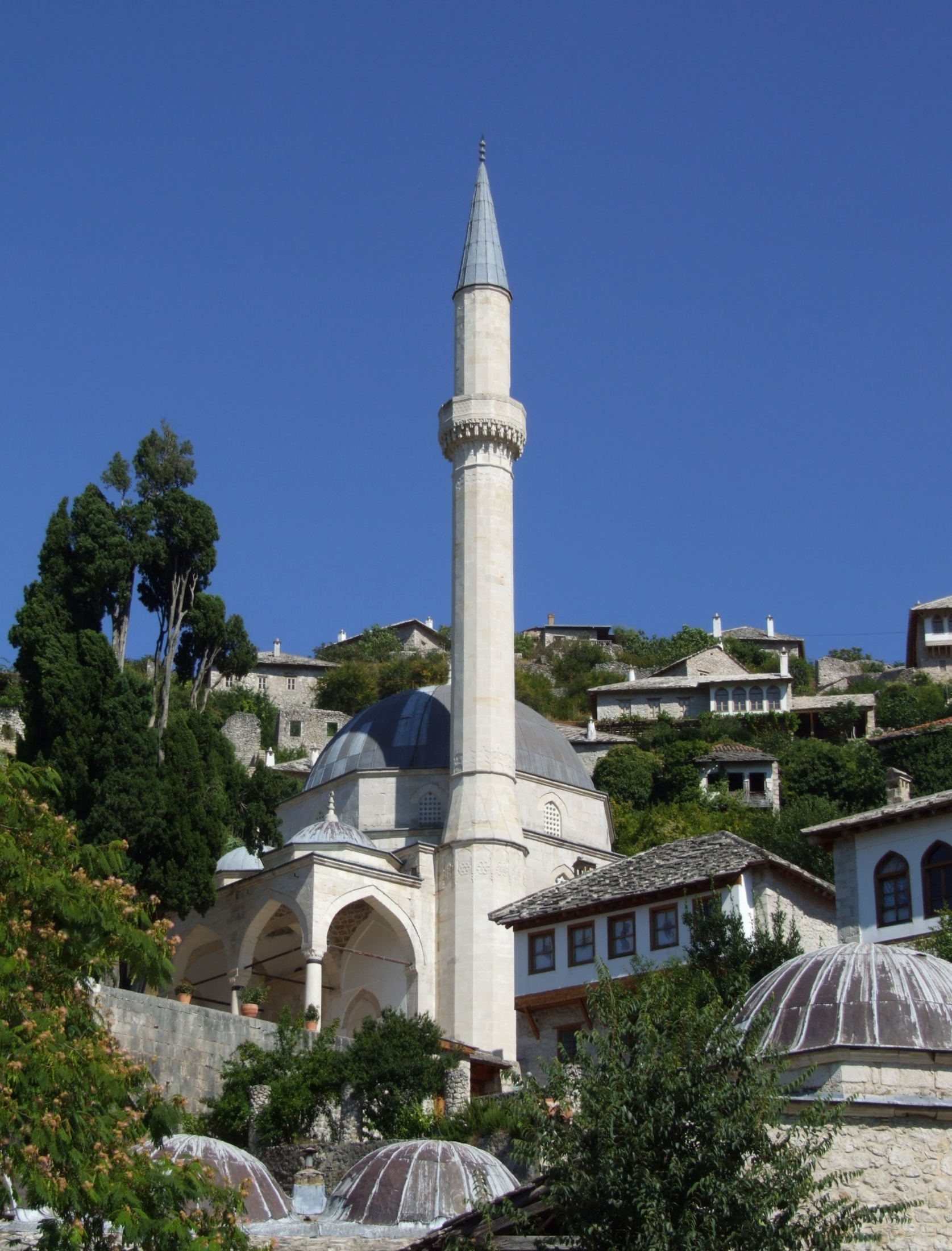 Počitelj, Hercegovina. Hajji Alija Mosque